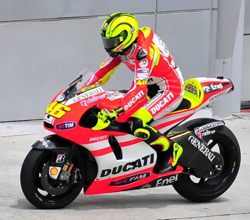 The Doctor.....